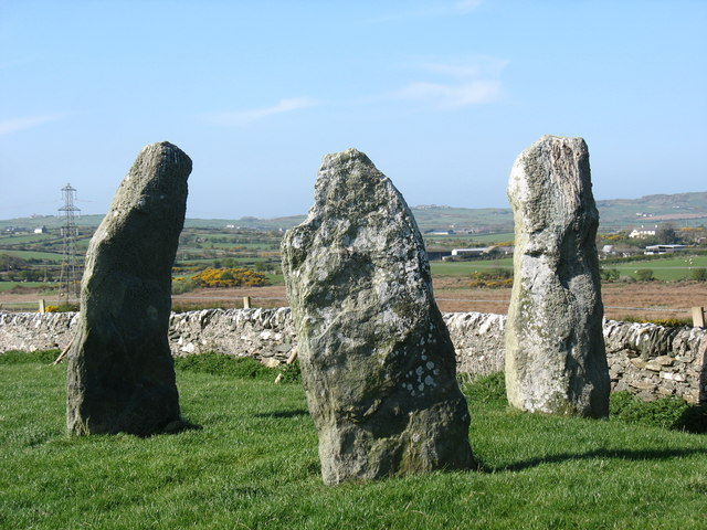 The Llanfechell Triangle ....looking for all the world like three old men in conversation